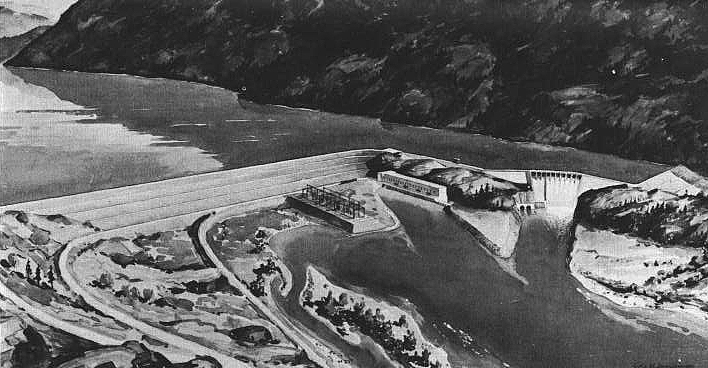 View of Paradise Dam, Montana, USA, planned but never built